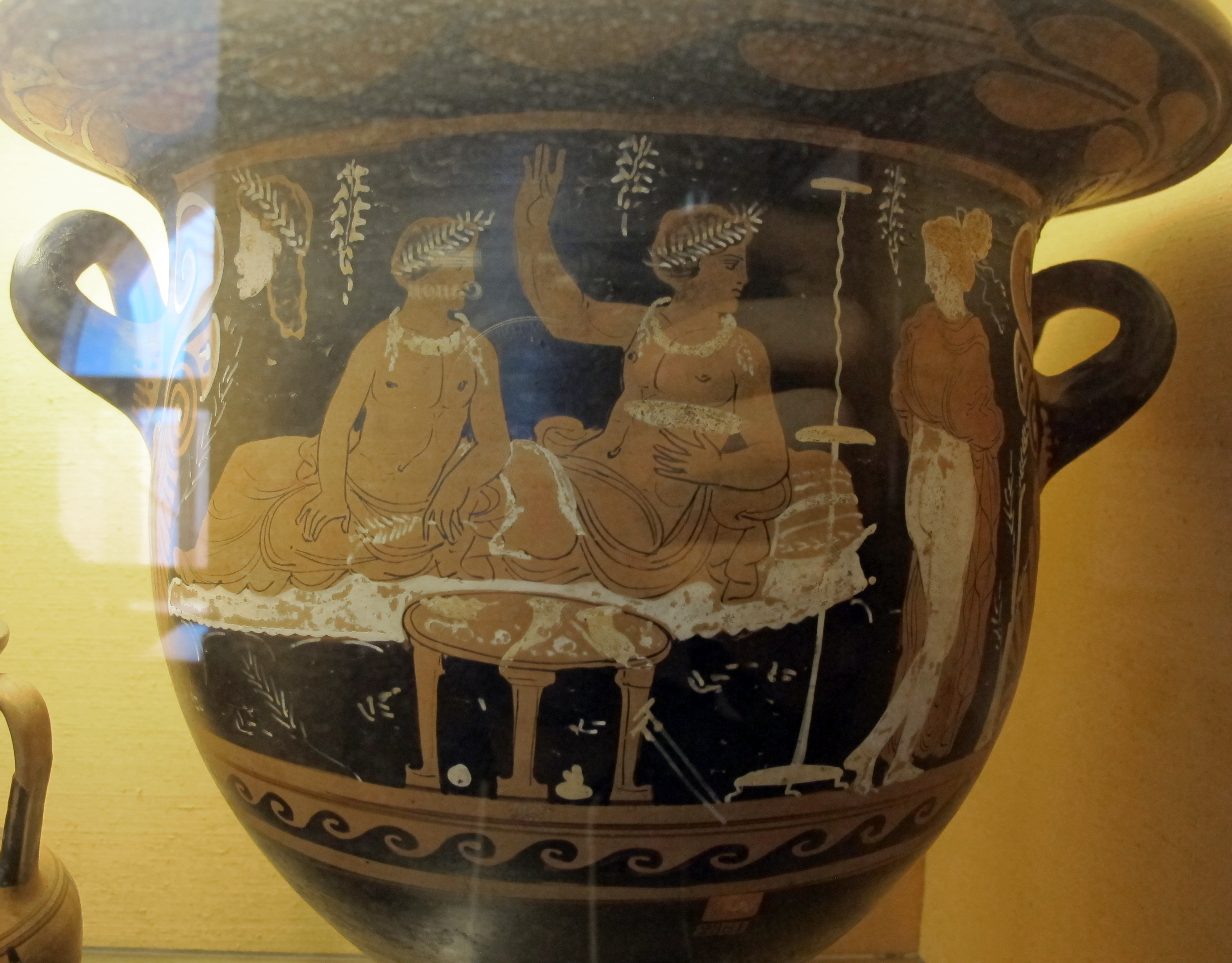 Secret Cabinet in the Museo Archeologico (Naples)